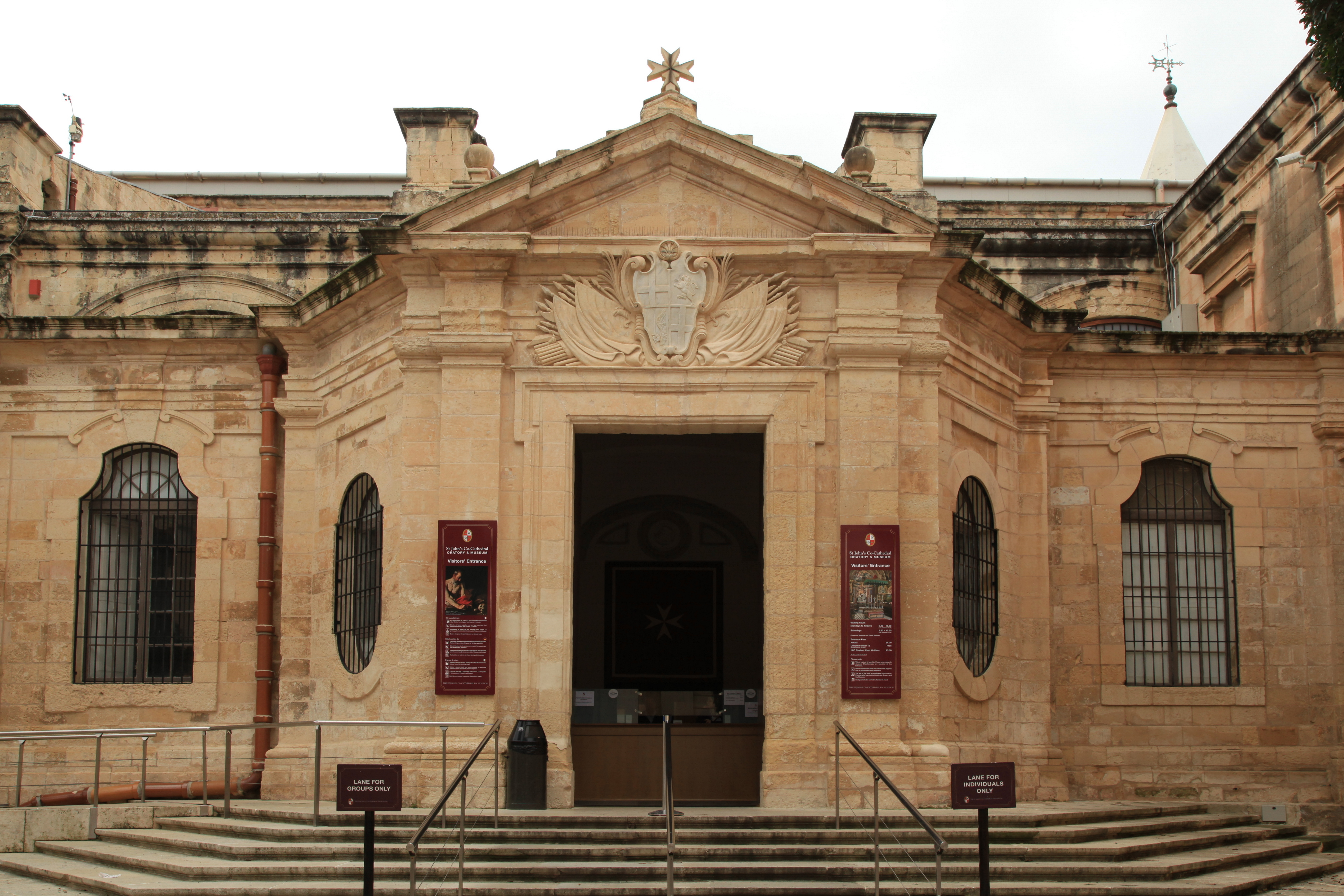 St. John's Co-Cathedral at Misraħ l-Assedju l-Kbir, Triq ir-Repubblika in Valletta, Malta